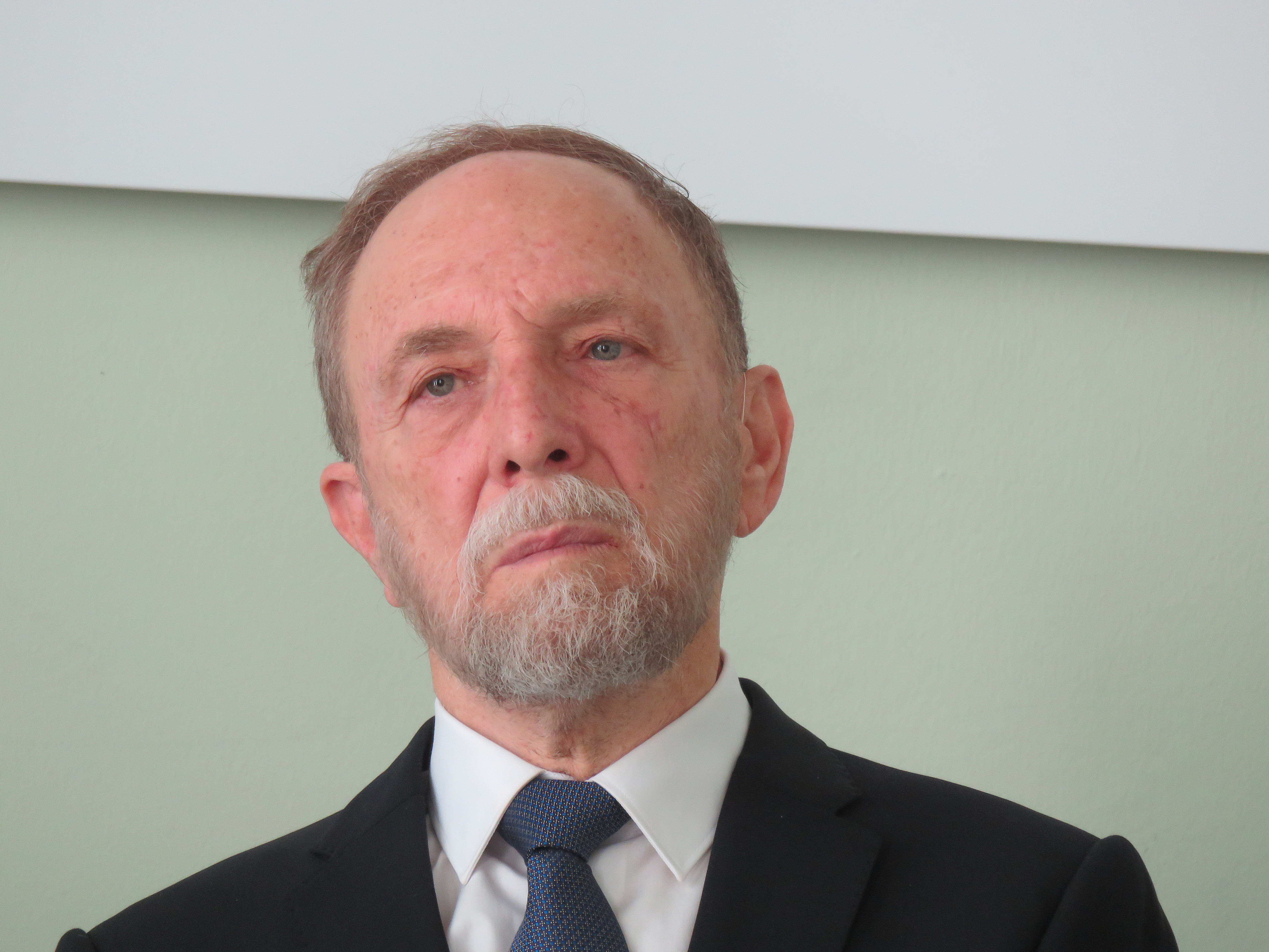 Prof. David Wallach